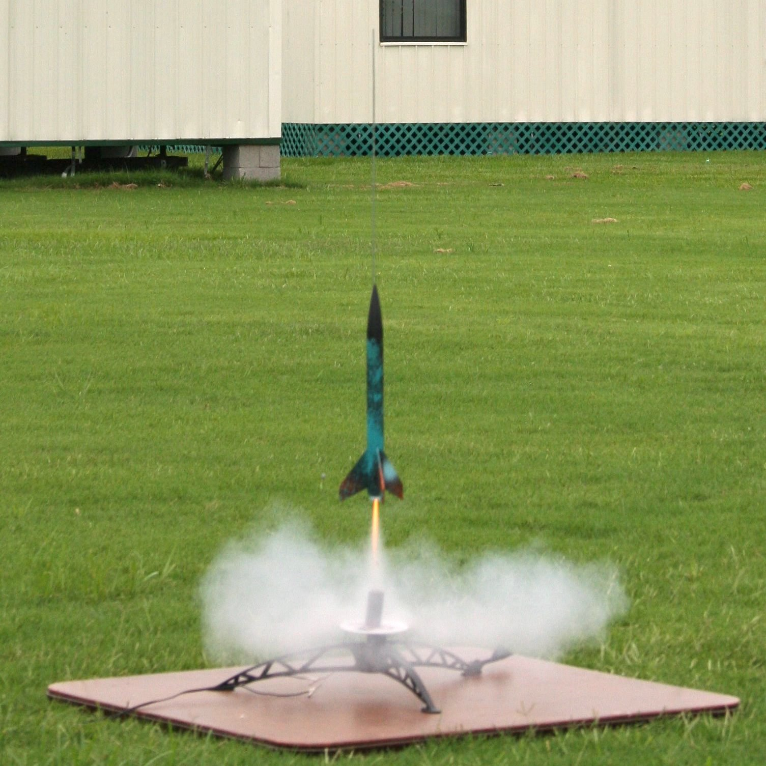 My brother's model rocket launching. Taken at Pine View School in Osprey, Florida.